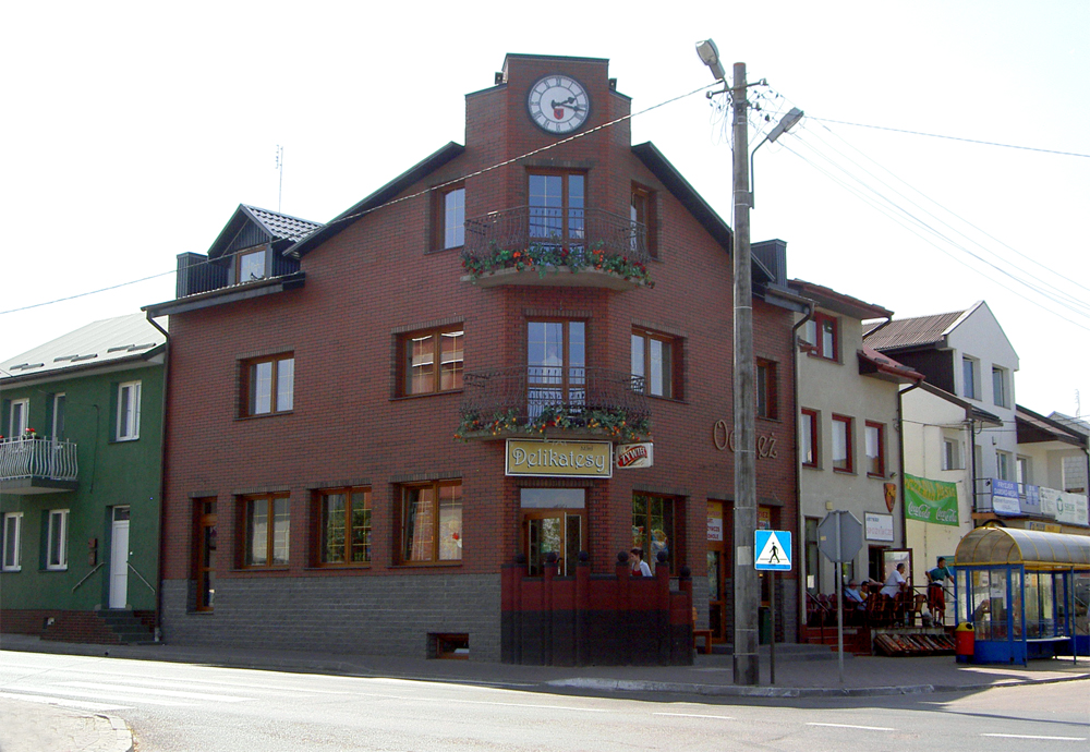 Tarnogród, Poland - Town Square, Clock House